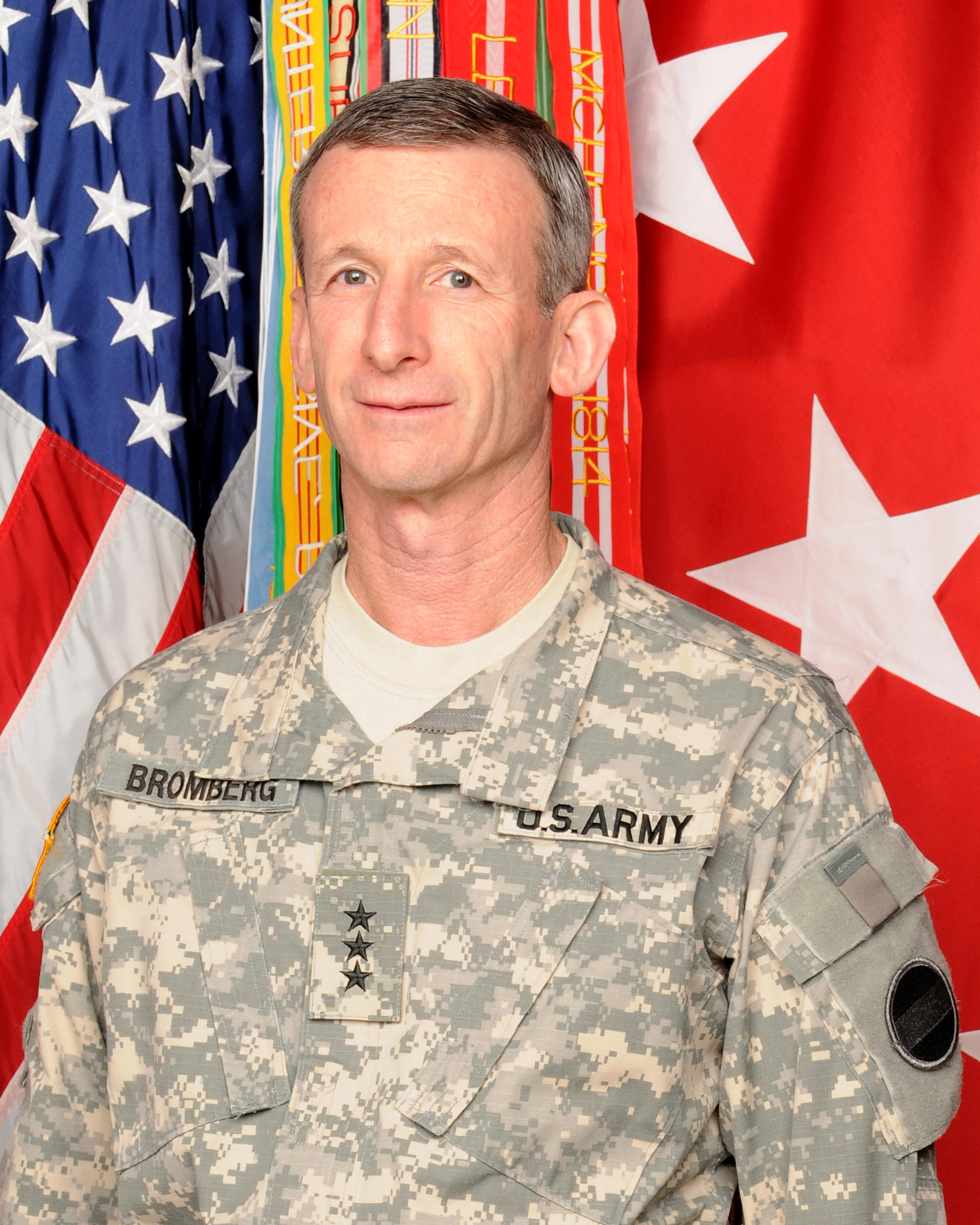 LTG Howard Bromberg, Deputy Commander FORSCOM